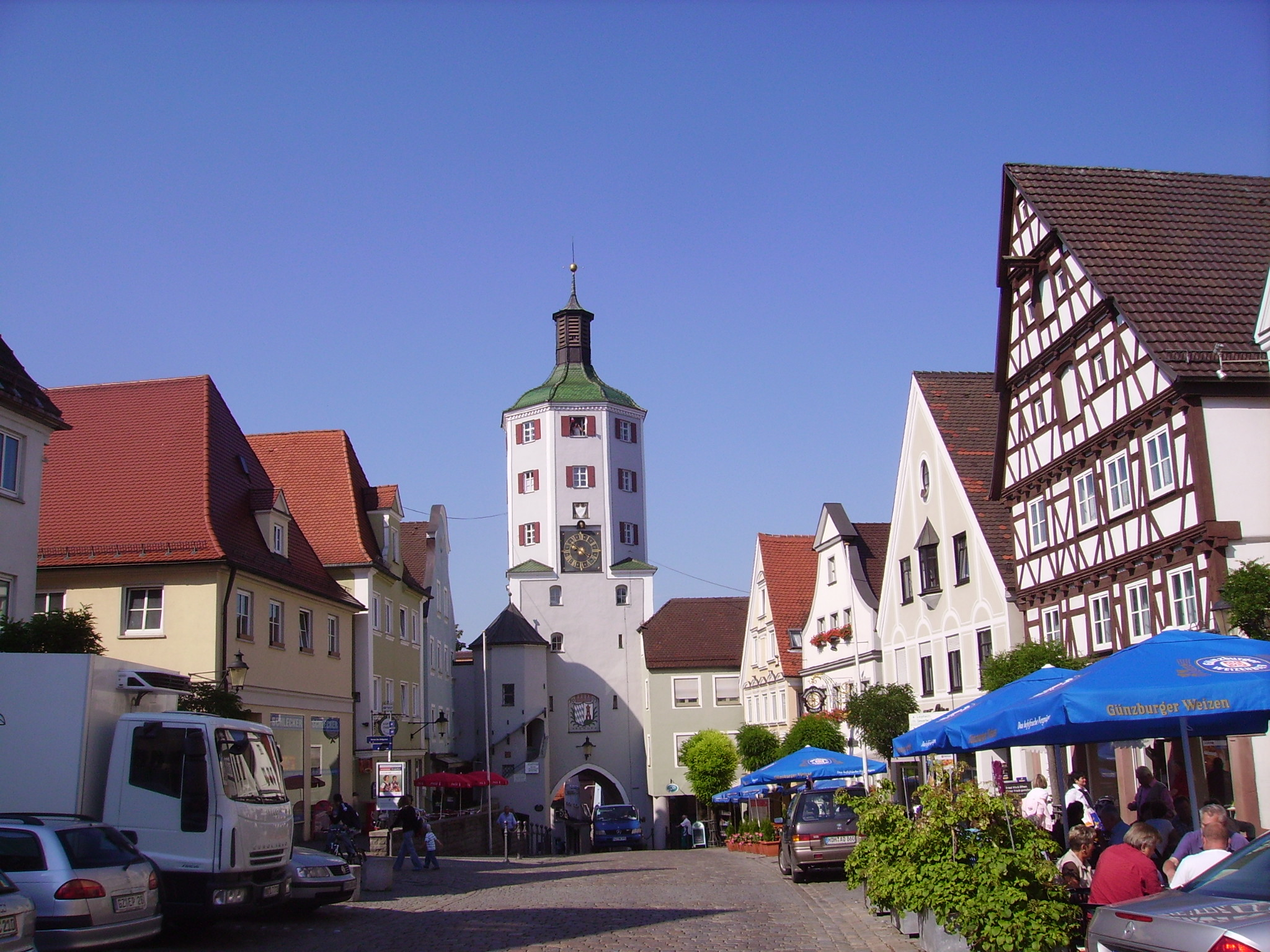 Günzburg, Germany